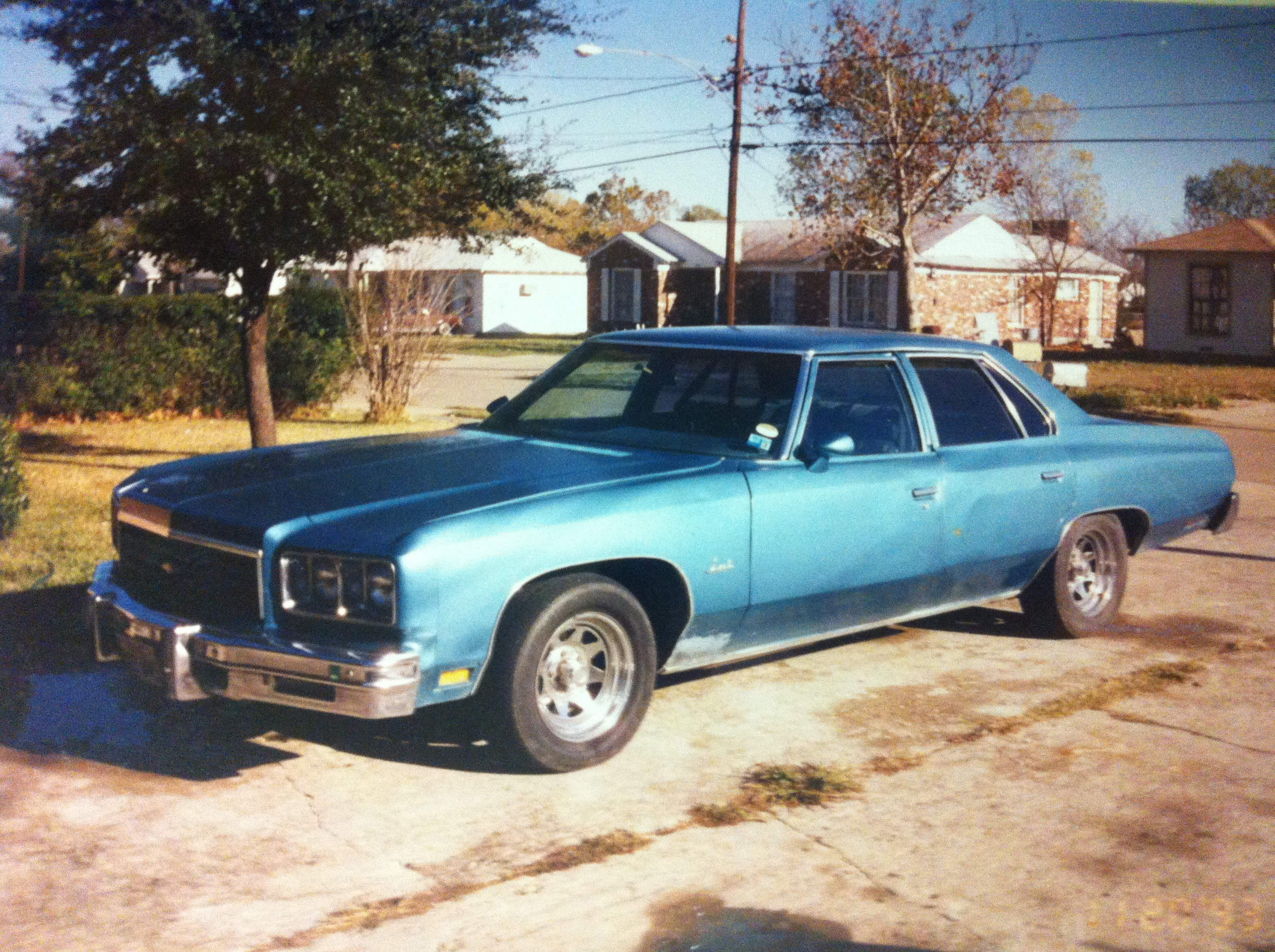 1976 Chevrolet Impala with aftermarket metallic blue paint